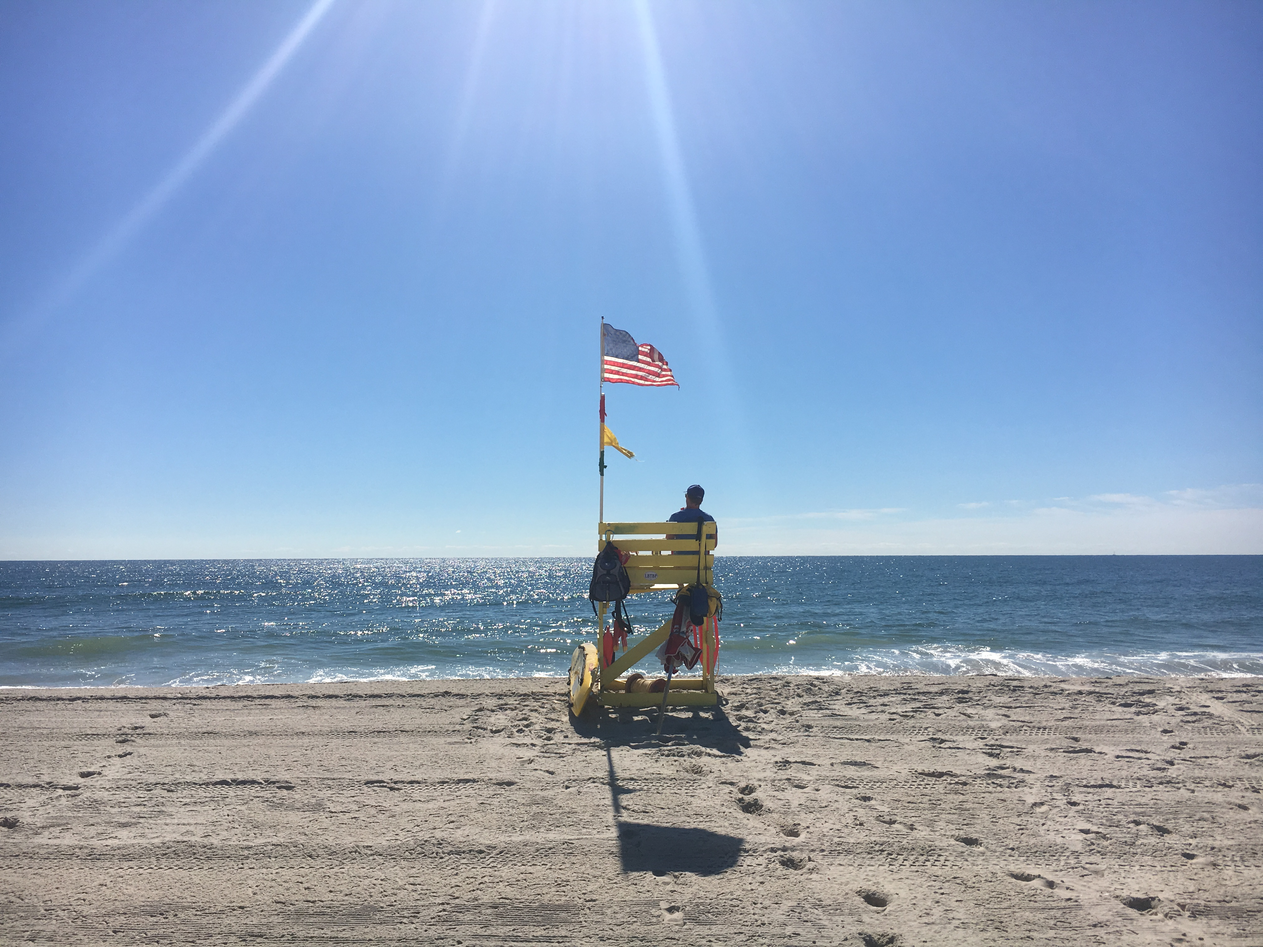 Lifeguard watching the water in Long Beach Township